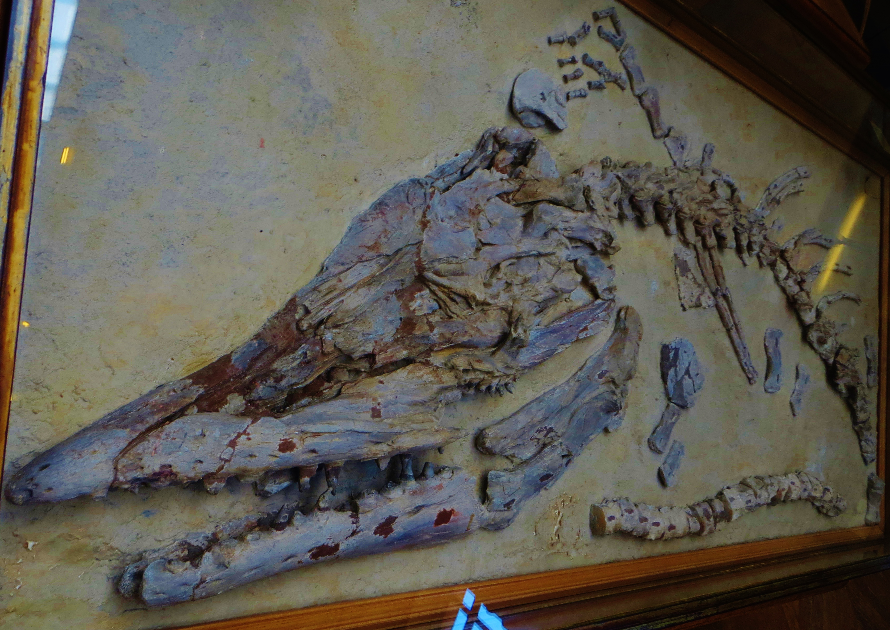 Fossil of Tylosaurus (formerly Clidastes velox), an extinct sea reptile. Took the photo at Muséum national d'histoire naturelle, Paris.